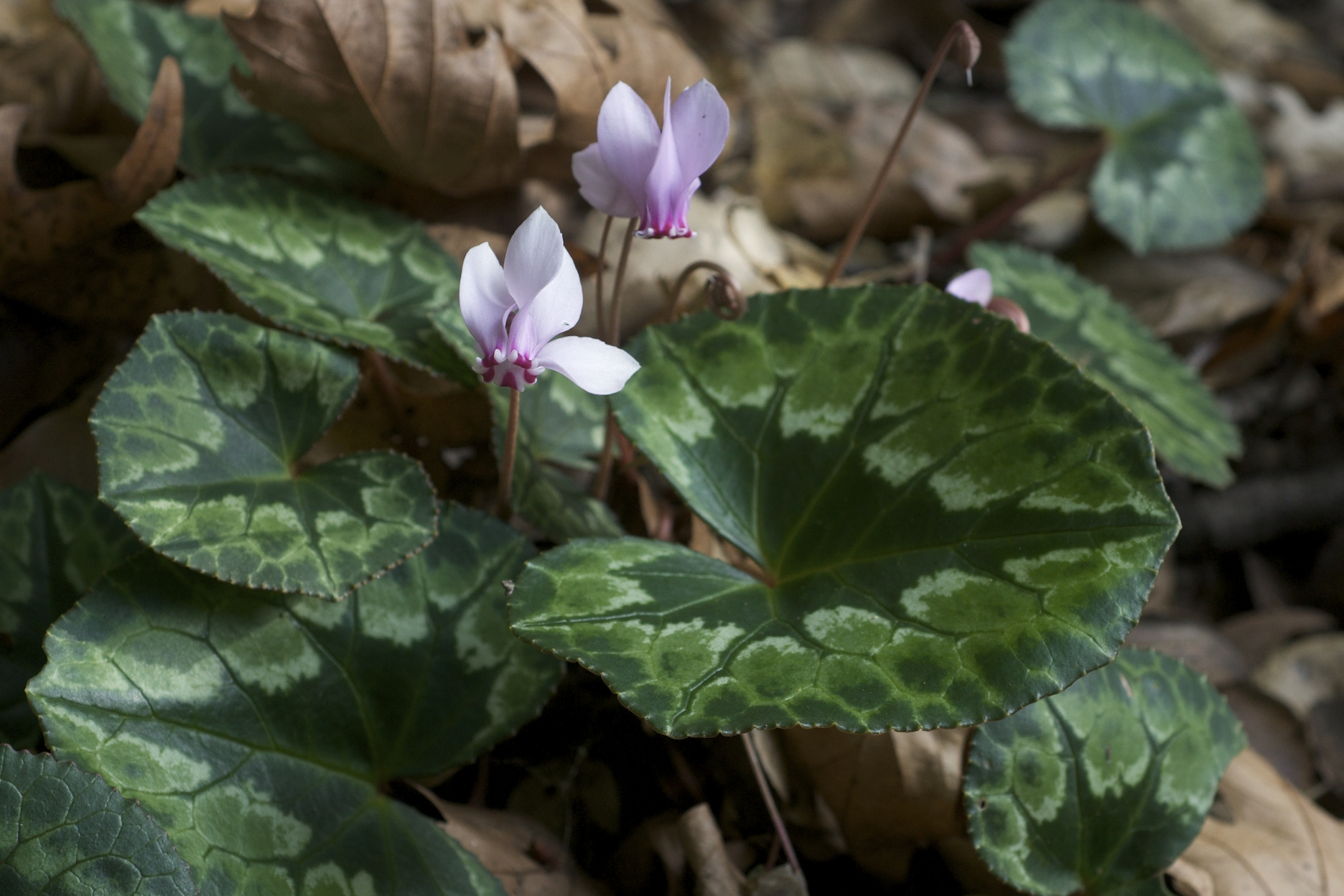 Cyclamen africanum, a species from Algeria and Tunisia